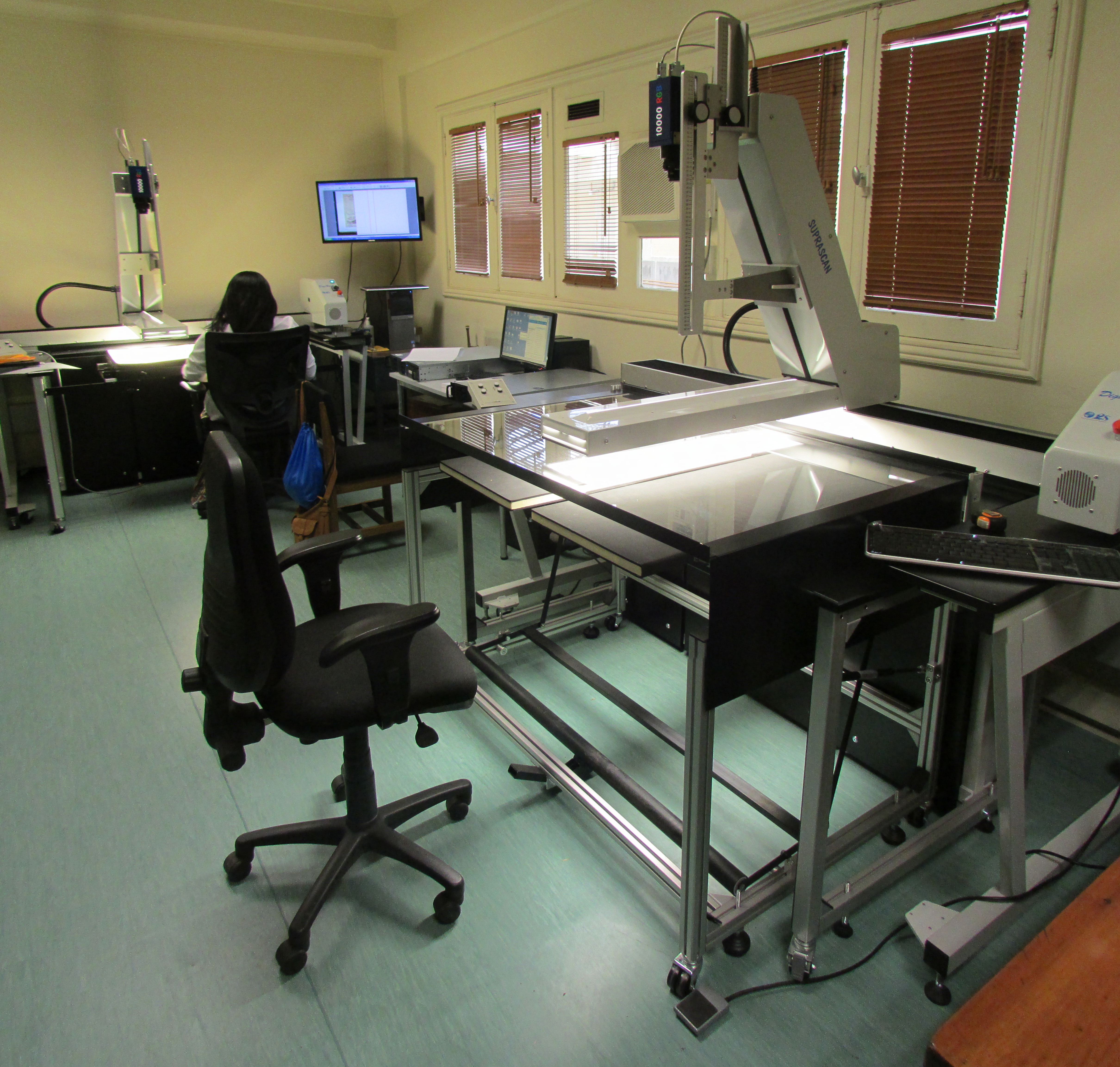 Digitalization Laboratory of the National Library of Chile.